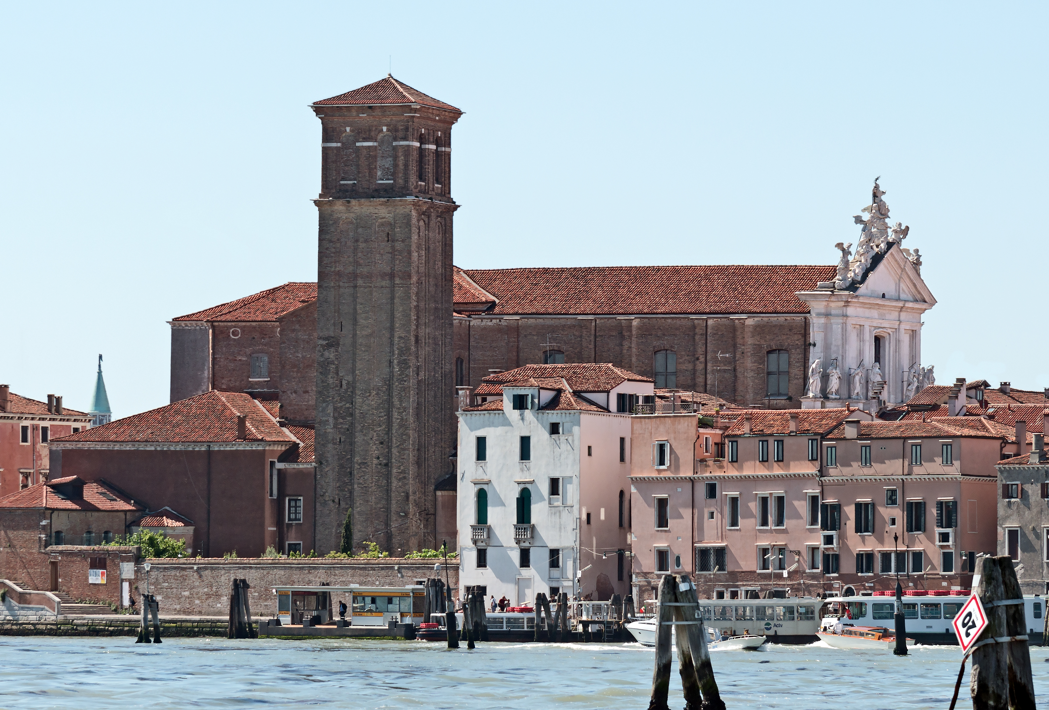 Church of Santa Maria Assunta (Facade) in Venice, view of the northern part of the lagoon.